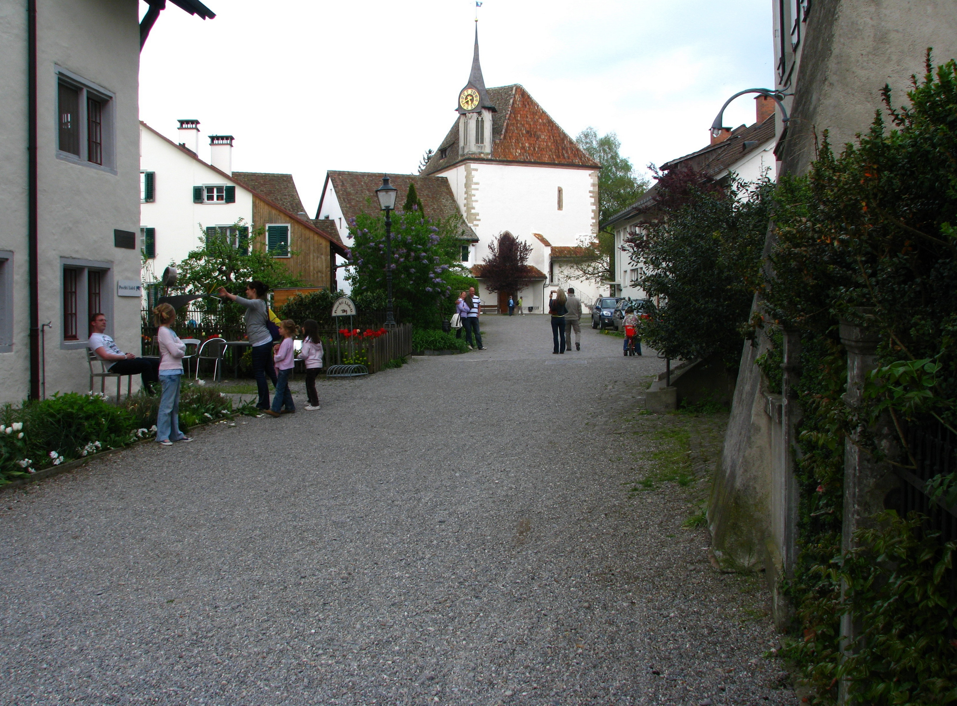 The eastern part of the small Altstadt of Greifensee (ZH), Gallus Chapel in the background.